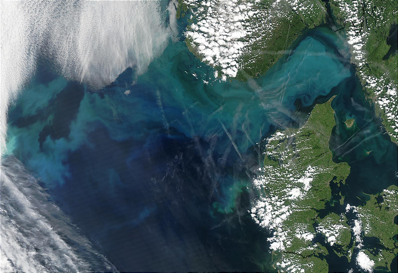 Phytoplankton bloom in the North Sea and the Skagerrak Turquoise clouds of phytoplankton bloom throughout the North Sea (left) and the Skagerrak (between Norway, at top, Denmark, bottom, and Sweden, right) in this true-color Aqua MODIS image. Phytoplankton grow in nutrient-rich waters, and multiply very quickly; blooms big enough to be seen from space, like this one, can take only days to appear. :Also visible in this image are a number of streaky airplane contrails crossing the Skagerrak and North Sea. Contrails are thin ice clouds that form in the exhaust of planes high up in the atmosphere. The contrails fade over just a few hours, but the number of them apparent in this image gives an idea of just how common plane traffic is. This image was acquired on June 27, 2003.